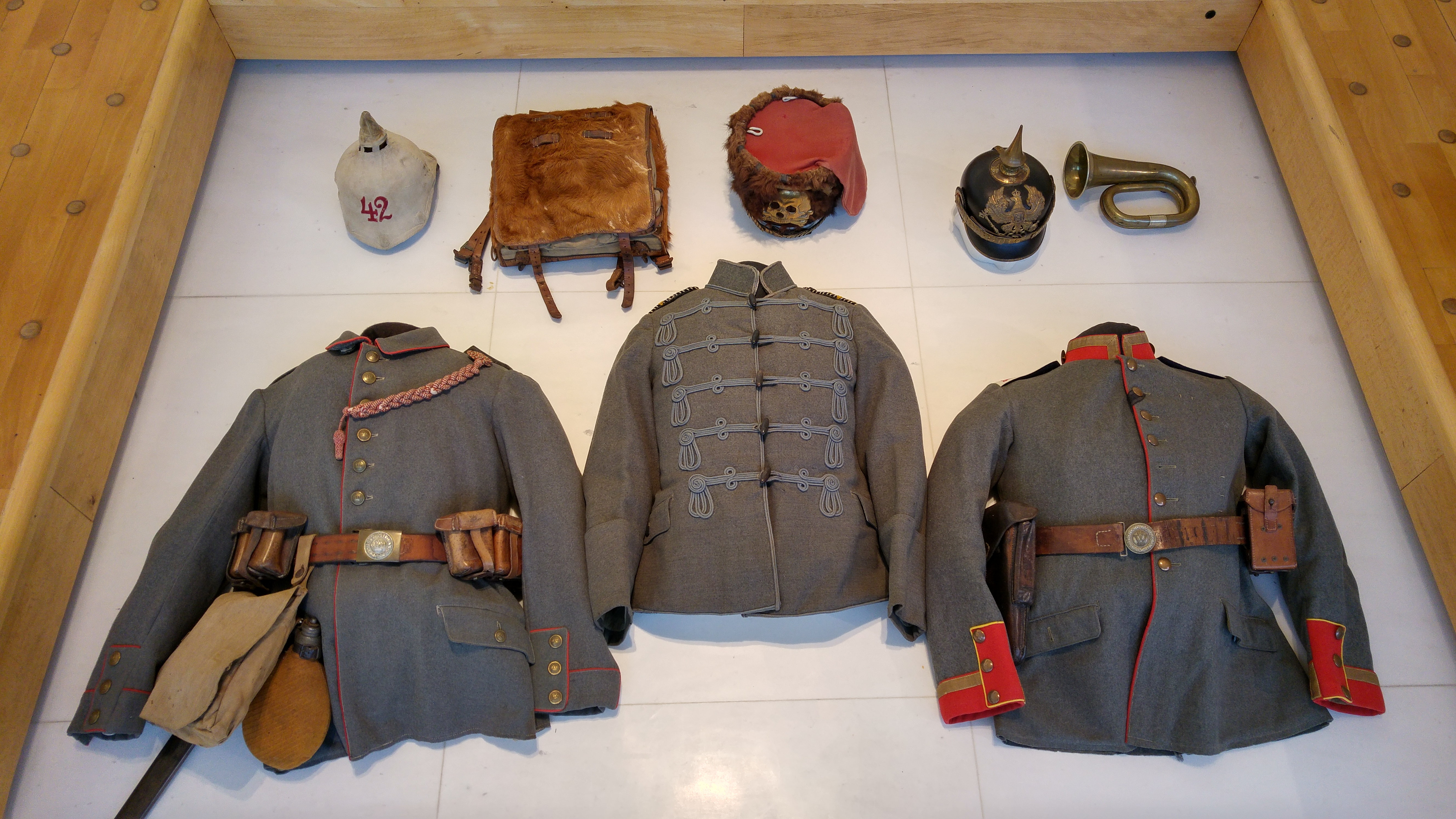 World War I museum "Historial de la Grand Guerre", Peronne, France